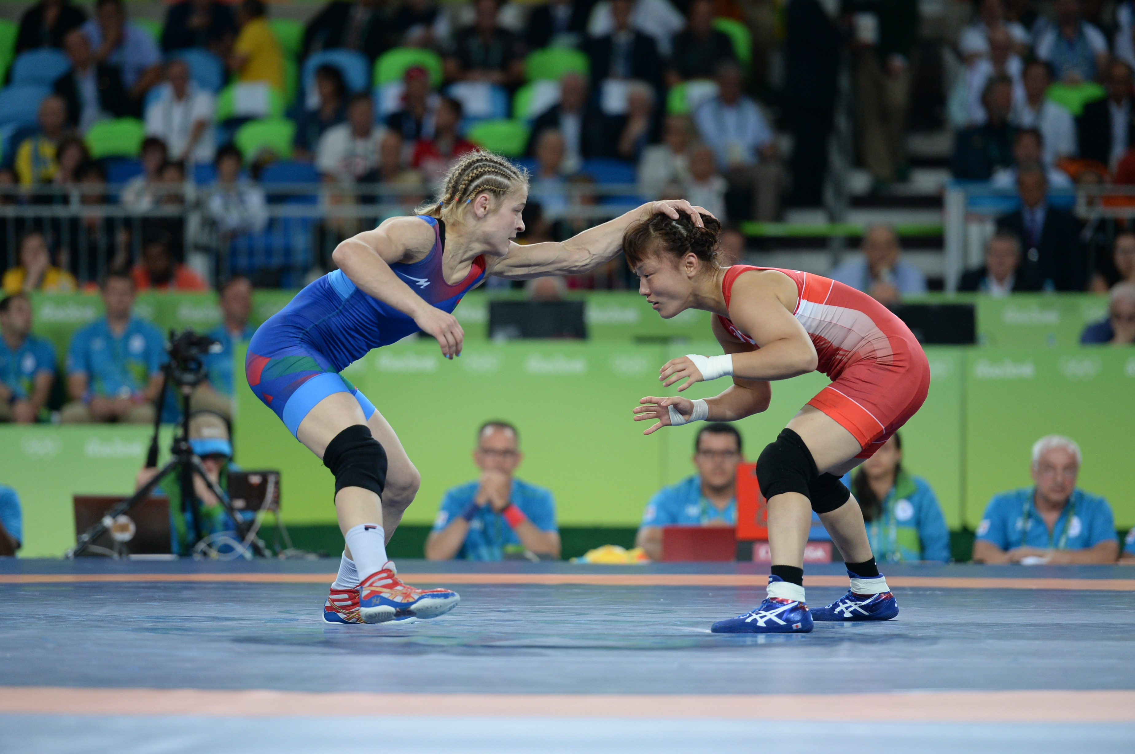 Wrestling at the 2016 Summer Olympics, Stadnik vs Tosaka